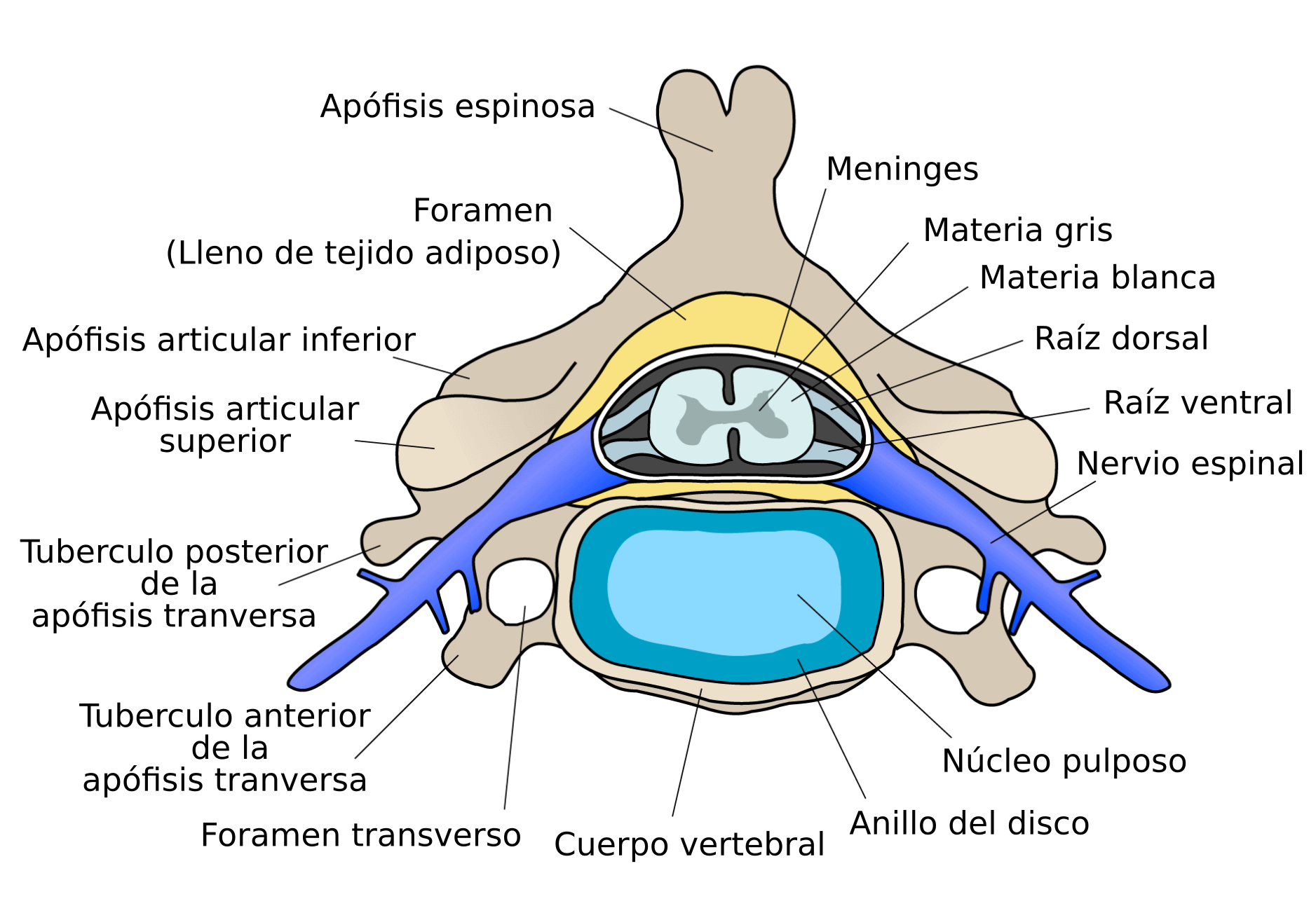 annotated diagram of cervical vertebra